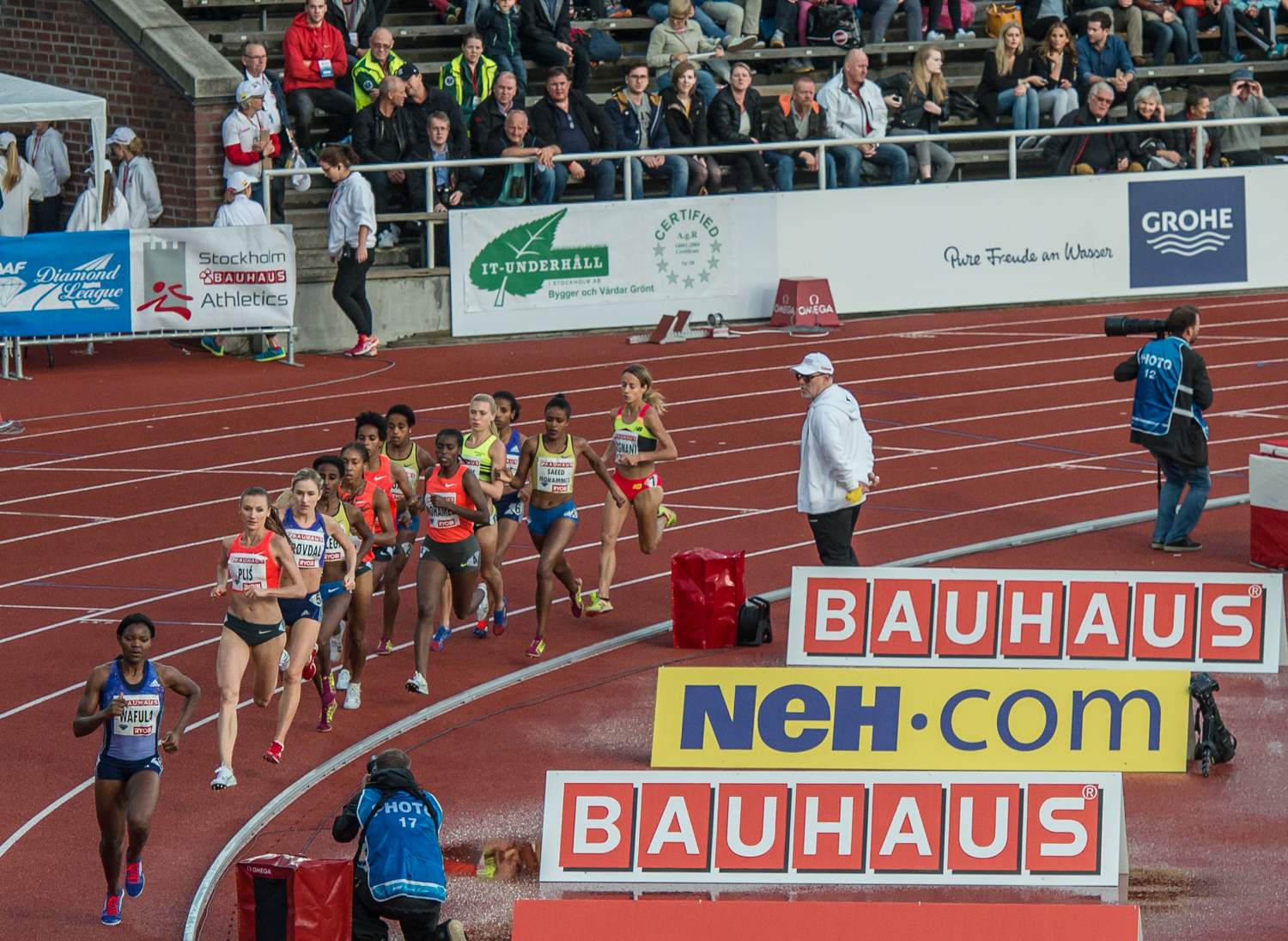 Diamond League (Bauhaus-galan) at the Stockholm Stadium on July 30, 2015.